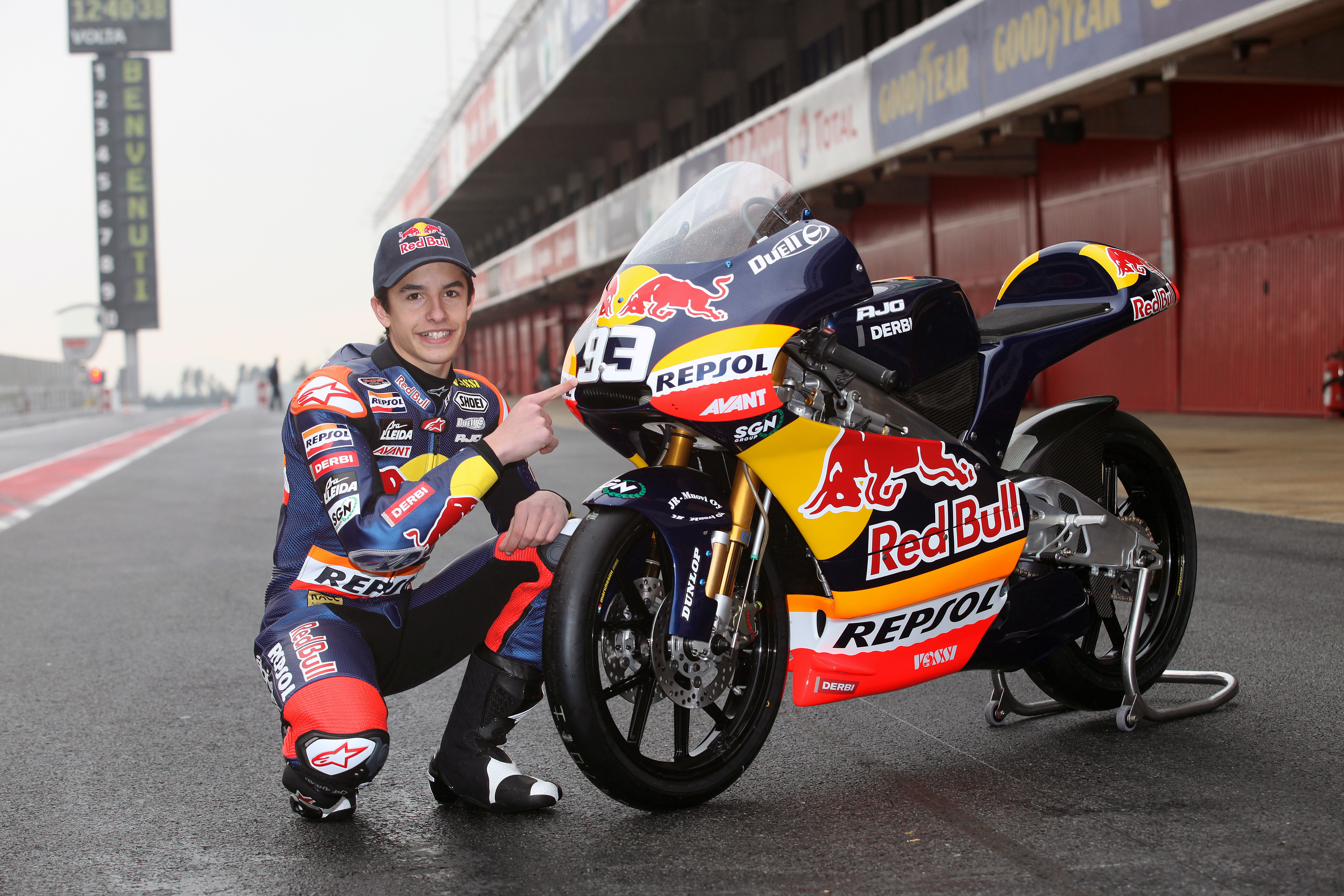 Marc Márquez, posing with his 125cc Red Bull Ajo Derbi at the 2010 San Marino and Rimini's Coast Grand Prix